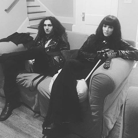 Kimi Shelter and Chris Tokaji of Starbenders